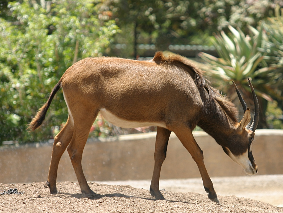 A Zambian Sable Antelope at the San Diego Zoo in San Diego, California, USA.